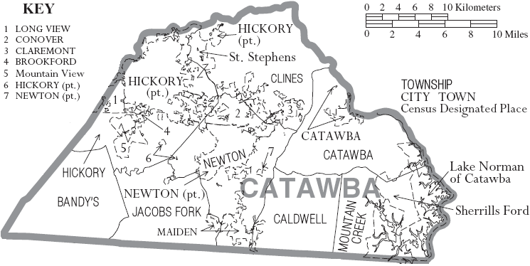 Map of Catawba County, North Carolina, United States with township and municipal boundaries